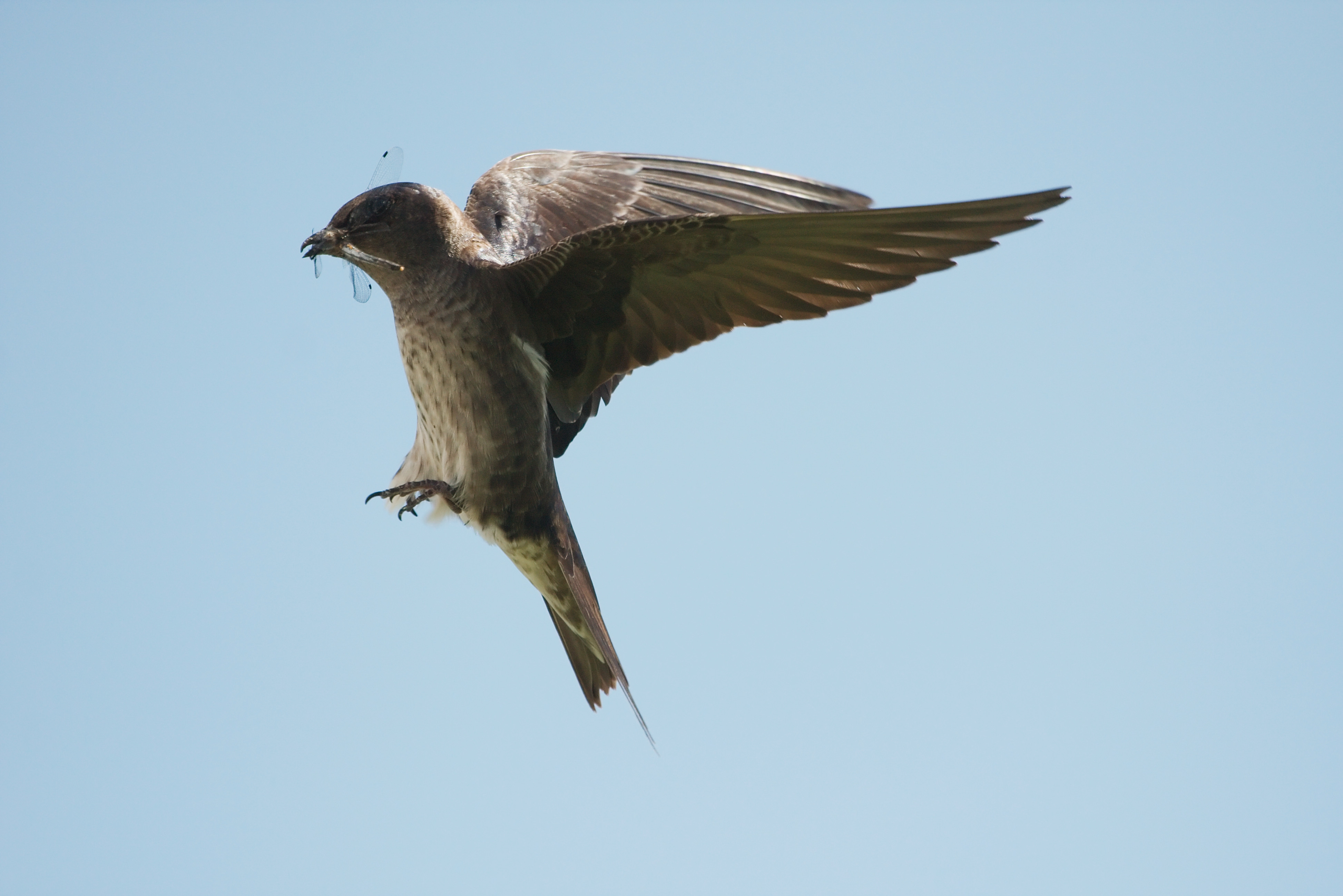 A Purple Martin (Progne subis), taken at the Horicon National Wildlife Refuge, Wisconsin